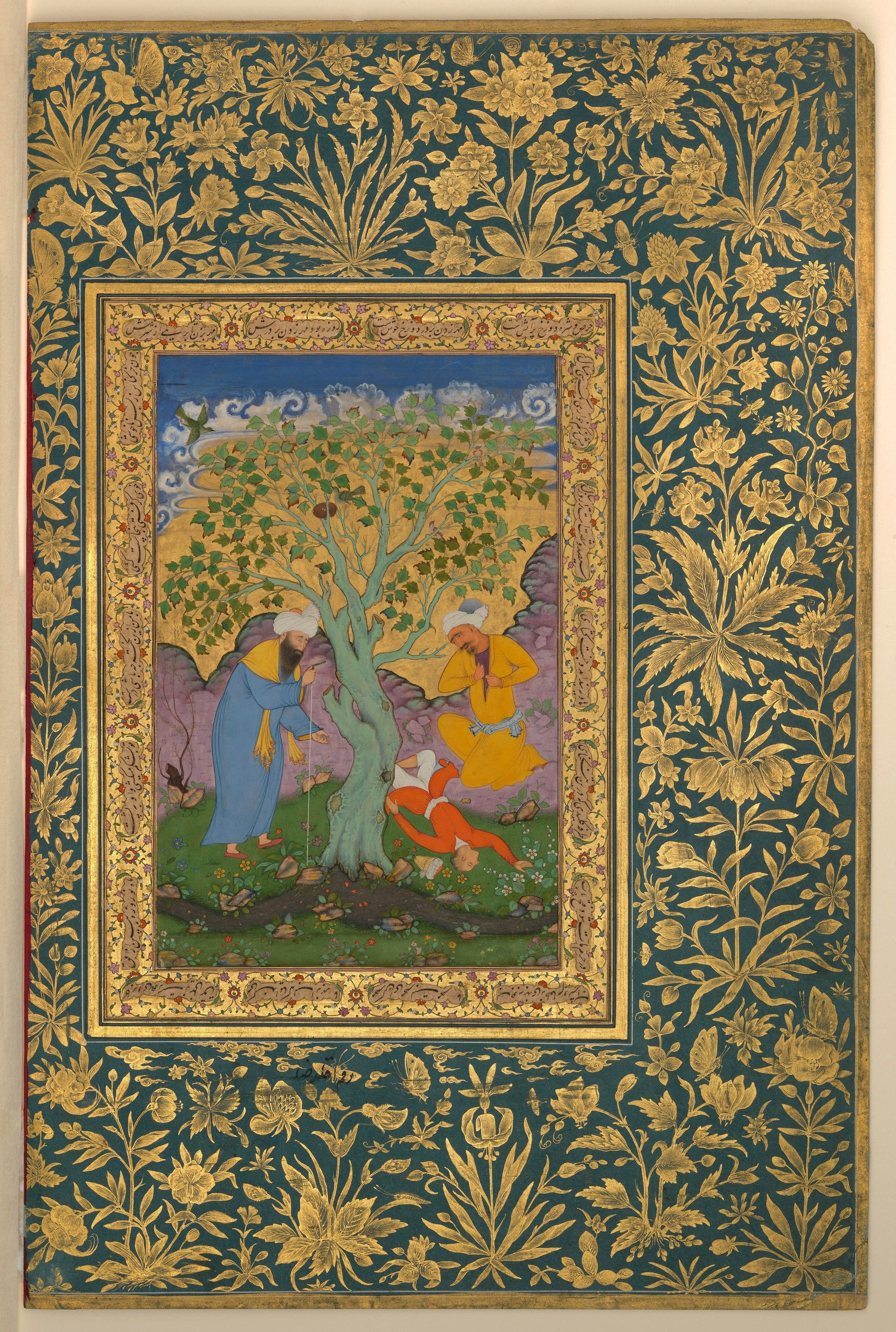 Aqa Riza, A Youth Fallen From a Tree, Folio from the Shah Jahan Album ca. 1610, Metropolitan Museum, New-York